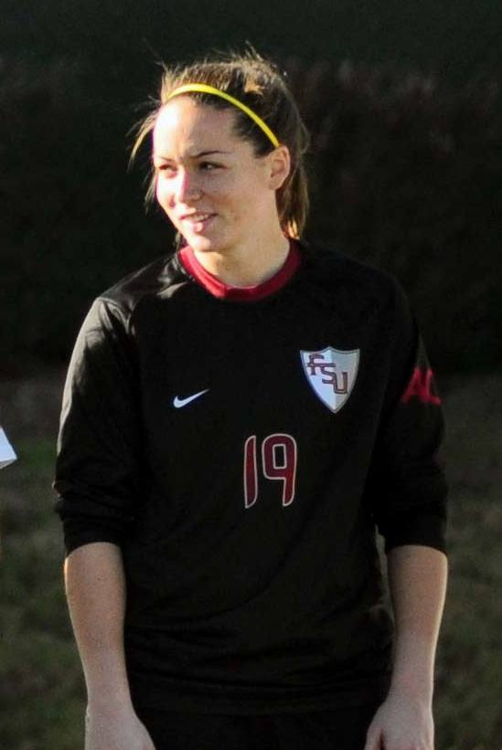 Pregame FSU Soccer vs BC